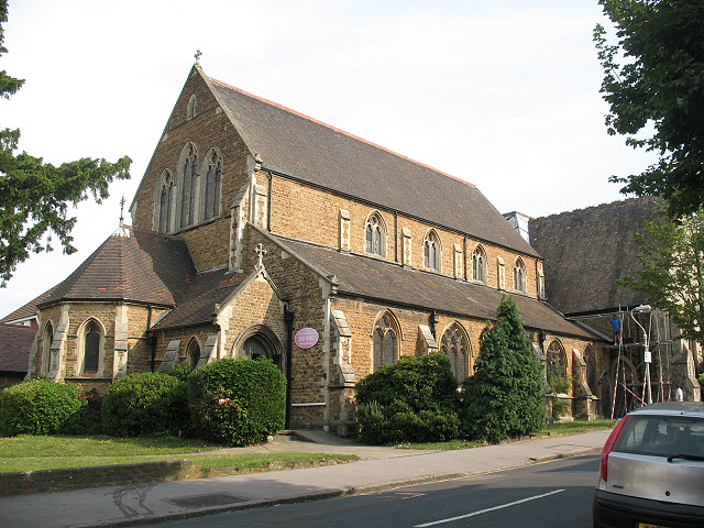 St Paul's parish church, St Paul's Road, Thornton Heath, south London (formerly Surrey), seen from the south. It was built in 1871, but the west end shown here was added in 1900.